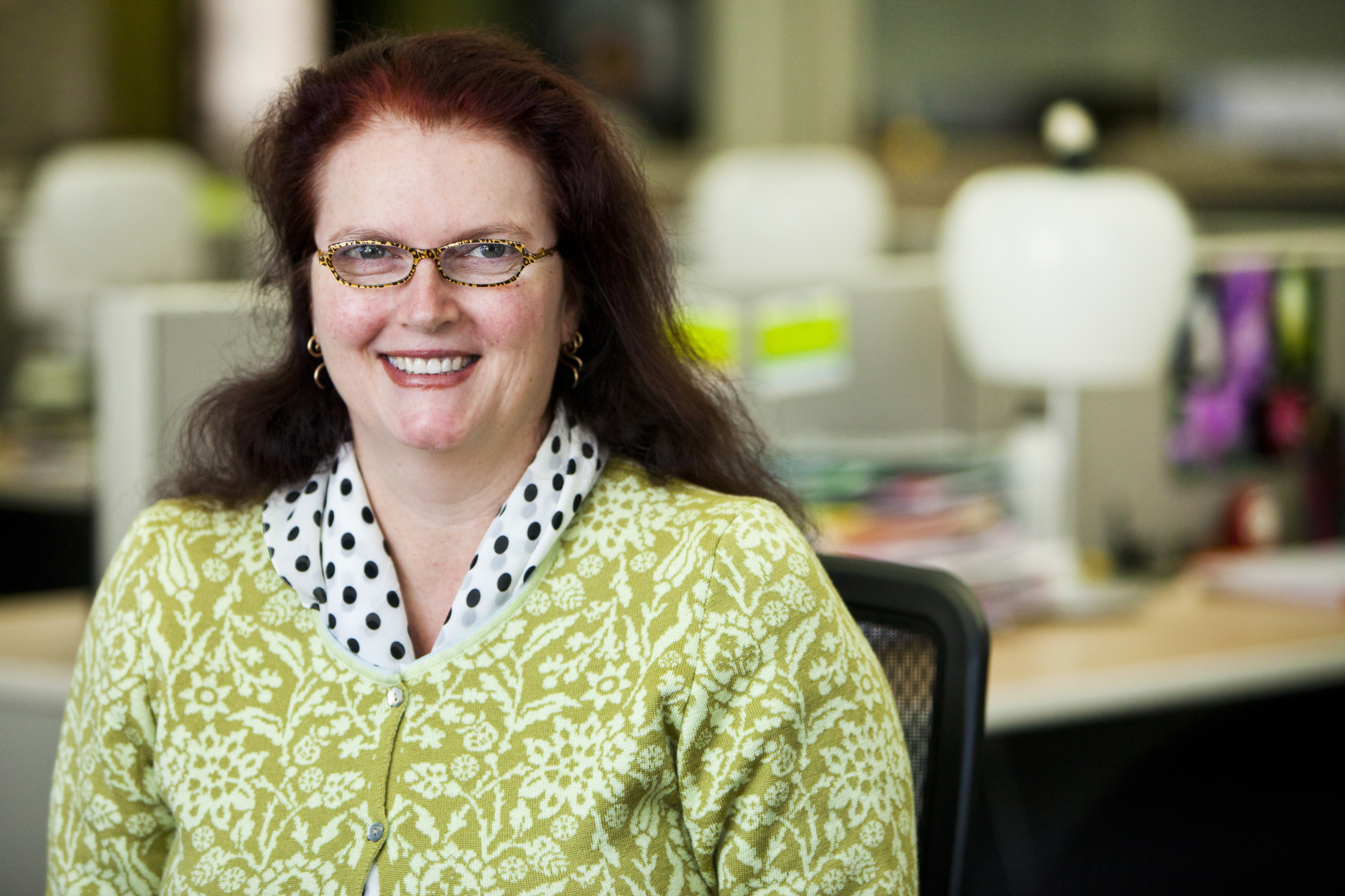 Staff Portrait of Danese Cooper, Chief Technology Officer at the Wikimedia Foundation.